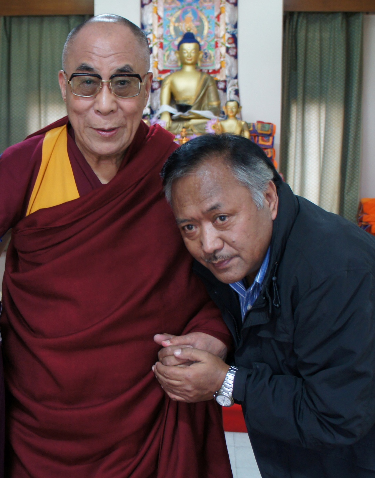 The Dalai Lama with Jamyang Dorjee Delhi Nov. 2010